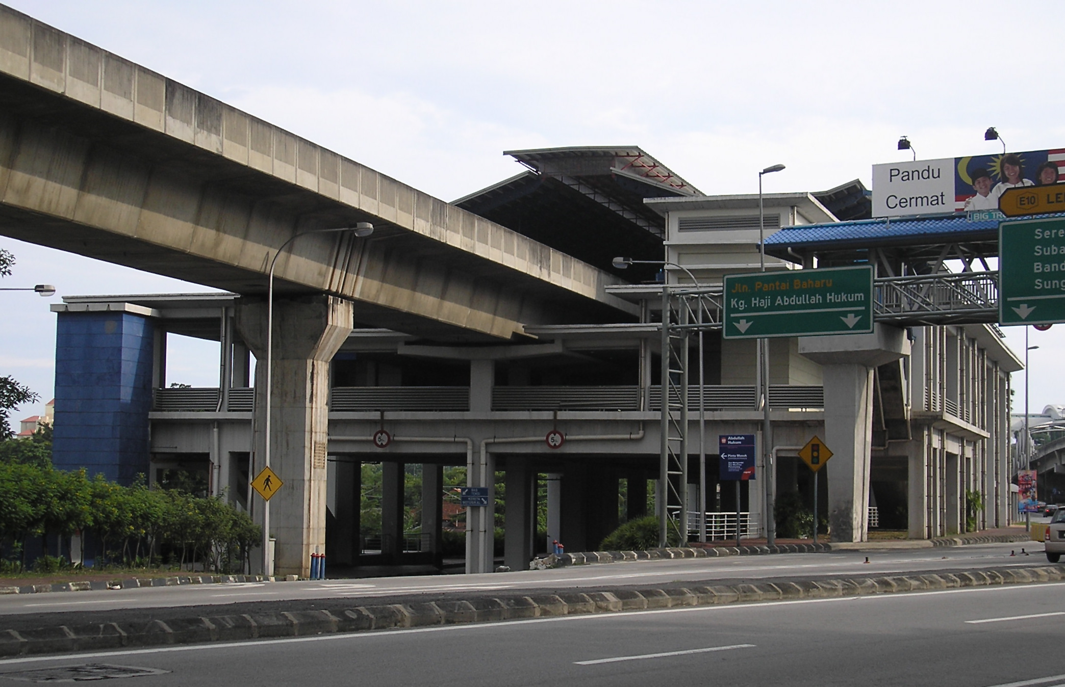 An exterior view (towards the southeast) of the Abdullah Hukum station's northern end (Kelana Jaya Line), close to Kampung Haji Abdullah Hukum, Kuala Lumpur, Malaysia.